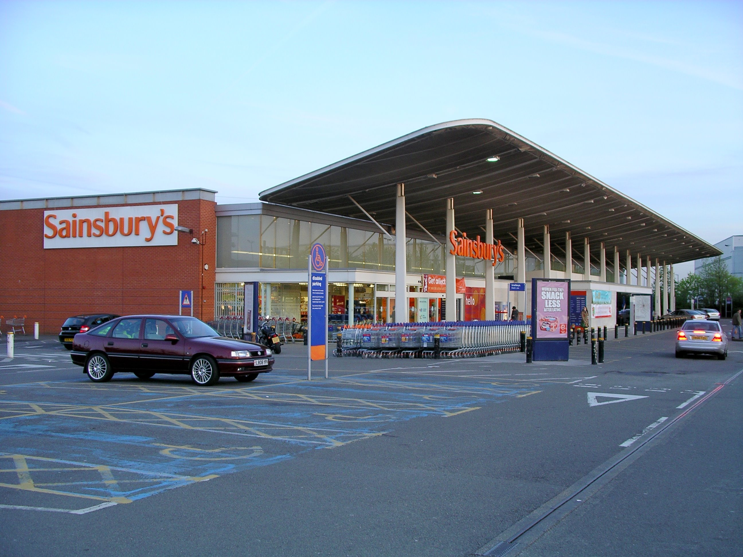 Photo taken by me on 17 April 2007 of Sainsbury's superstore in Canley, Coventry, England.